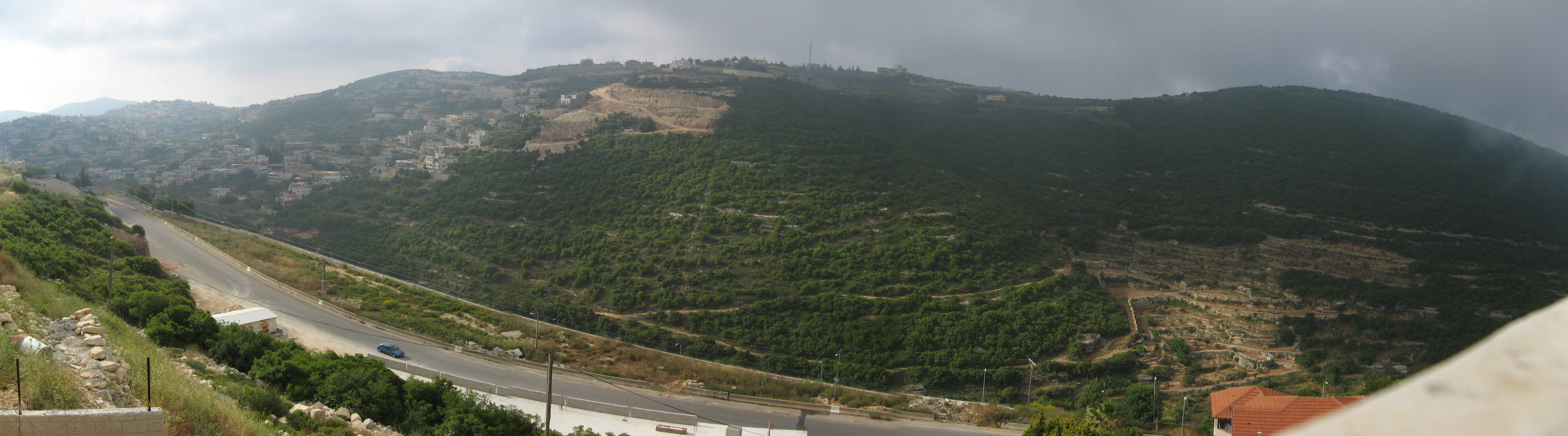 Panorama of the outskirts of the Druze village Beit Jann